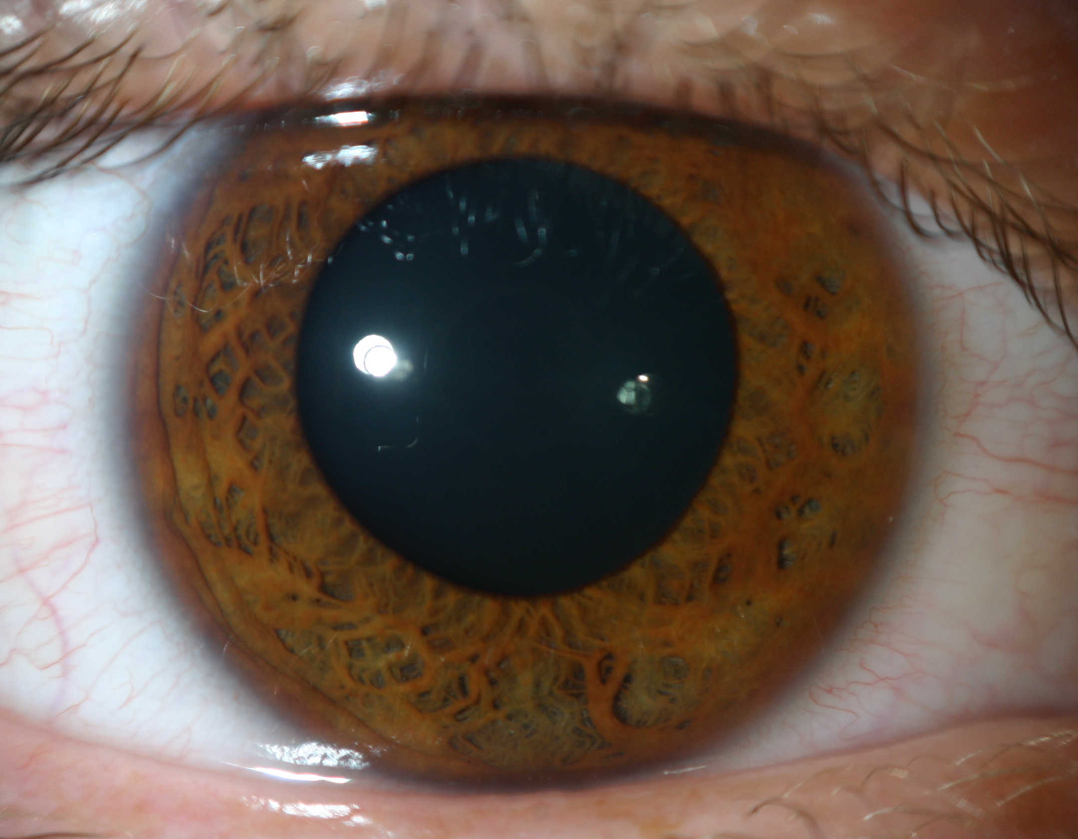 Right iris of primarily haematogenous constitution